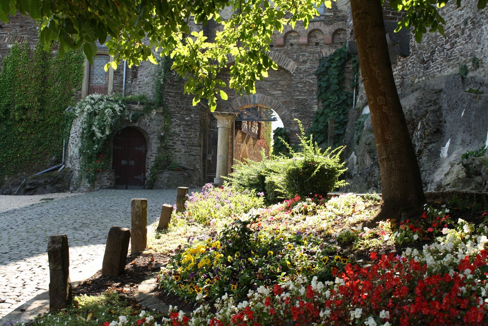 One of the inner courts of Reichsburg Cochem (Imperial Castle, Cochem)